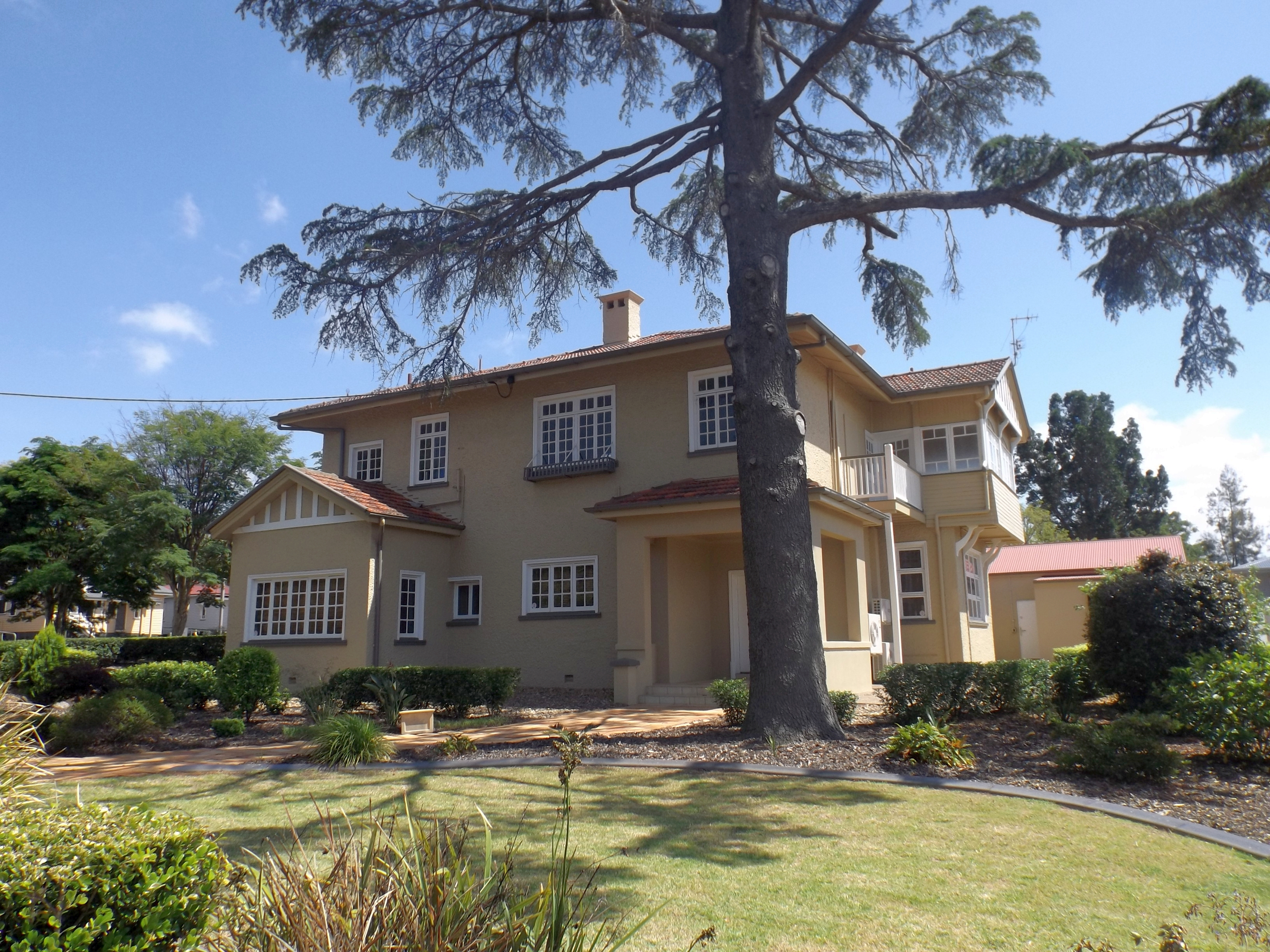 Photo of Wislet (former Wesley Hospital) in Toowoomba City, Queensland, Australia.